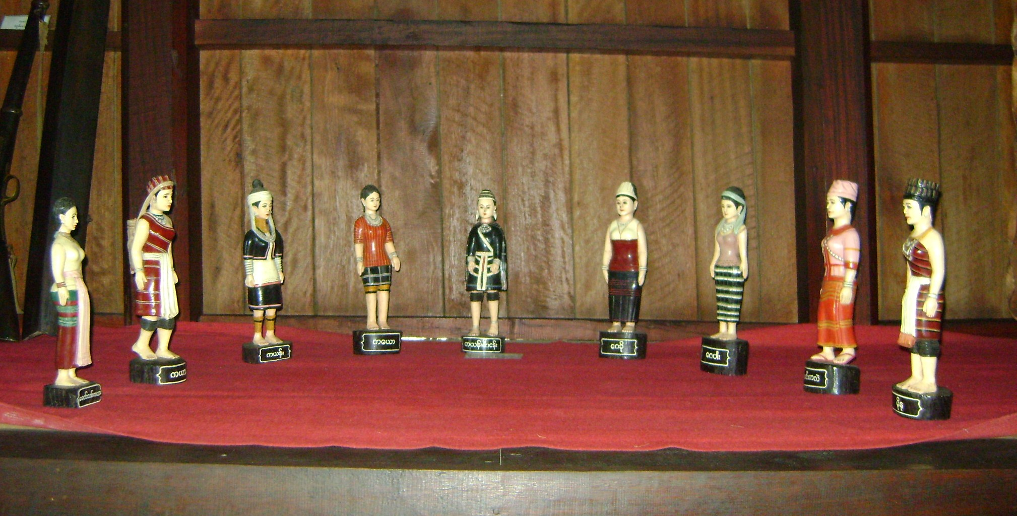 9 Karen tribes: no. 1. Karen from Ragoon; no. 2 Kayah; no. 3. Kayan; No. 4 Kayaw (Bre); No. 5. ?; no. 6. ?; no. 7. ?; no. 8. ?; no. 9. ?.